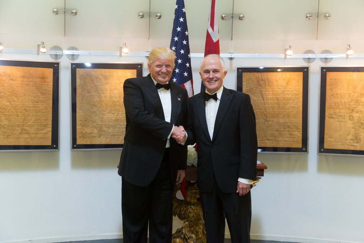 President Donald Trump meets with Australian Prime Minister Malcolm Turnbull for a bilateral meeting aboard the Intrepid Sea, Air & Space Museum, Thursday, May 4, 2017, in New York City. The two leaders also participated in the 75th anniversary of the Battle of the Coral Sea commemorative dinner aboard the aircraft carrier Intrepid.